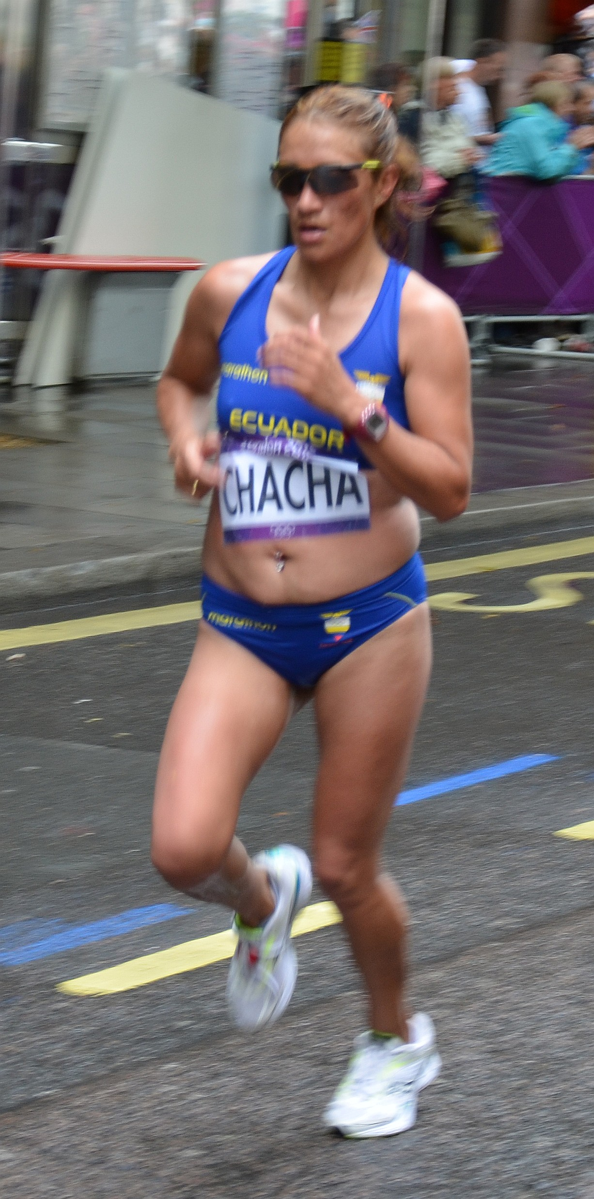 Rosa Chacha (Ecuador) in the marathon (w) at the Olympic Games 2012